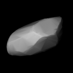 3D convex shape model of 825 Tanina, computed using light curve inversion techniques. J. Hanuš, J. Ďurech, M. Brož, B. D. Warner (June 2011). "A study of asteroid pole-latitude distribution based on an extended set of shape models derived by the lightcurve inversion method". Astronomy and Astrophysics 530: A134. ISSN 0004-6361. arXiv